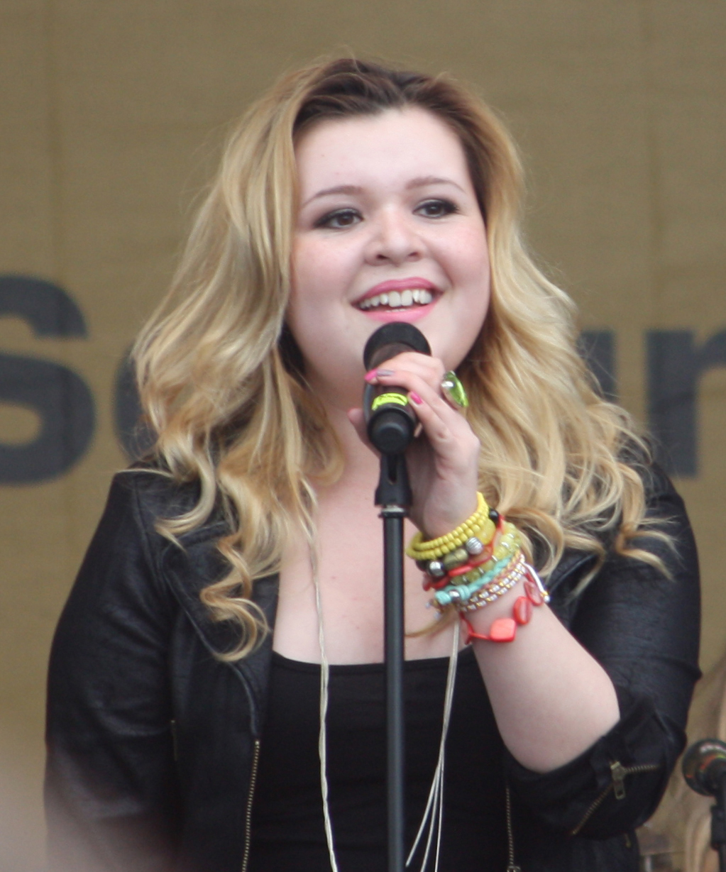 The winner of the Finnish Idols 2012 Diandra Flores performed at World Village Festival 2013 in Helsinki, Finland